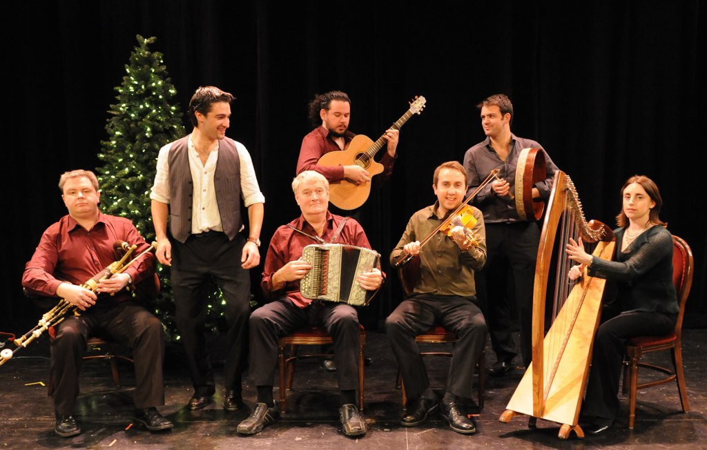 Irish Christmas in America posing for photo